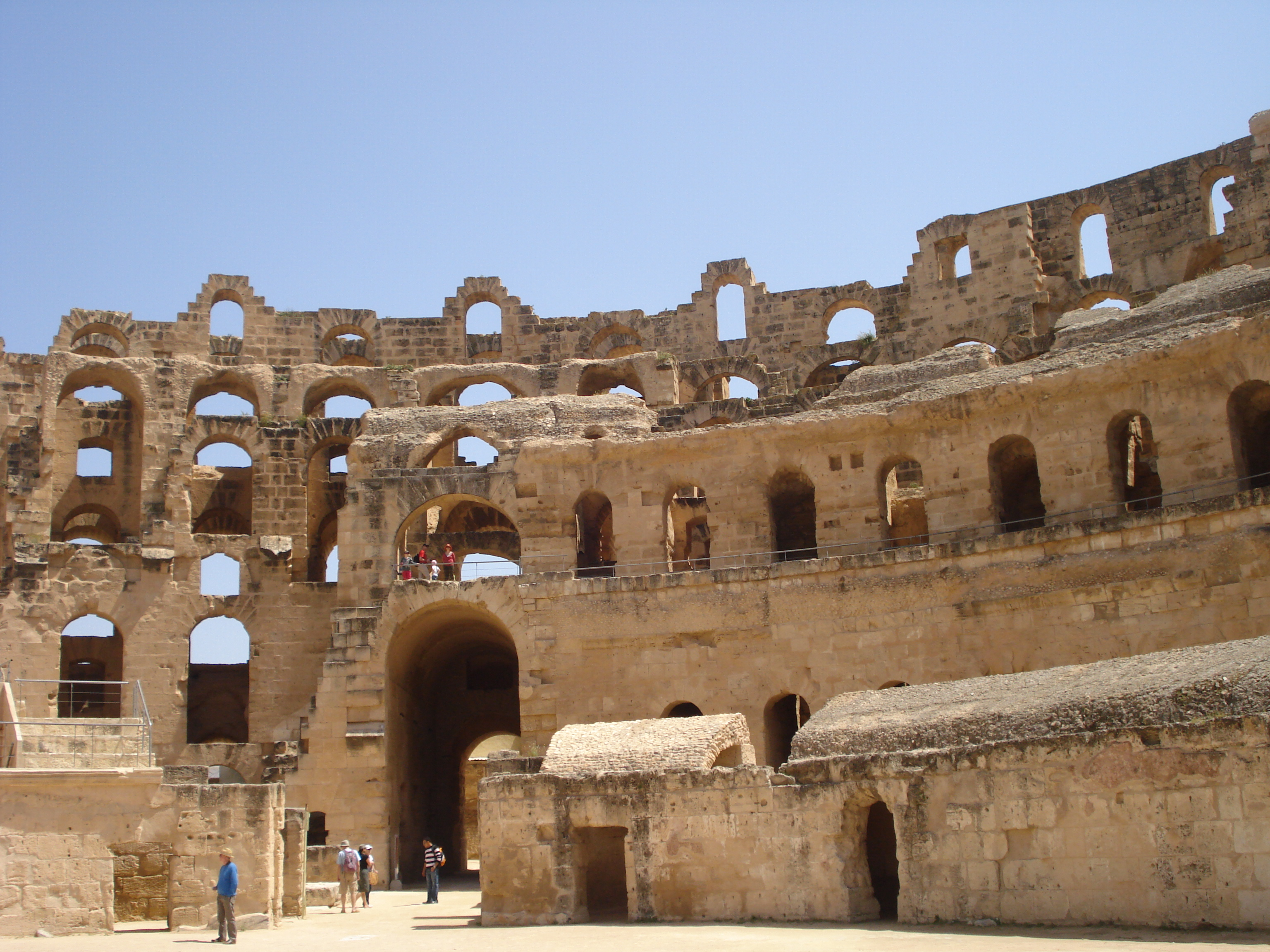 Amphitheatre of El Jem in Tunisia